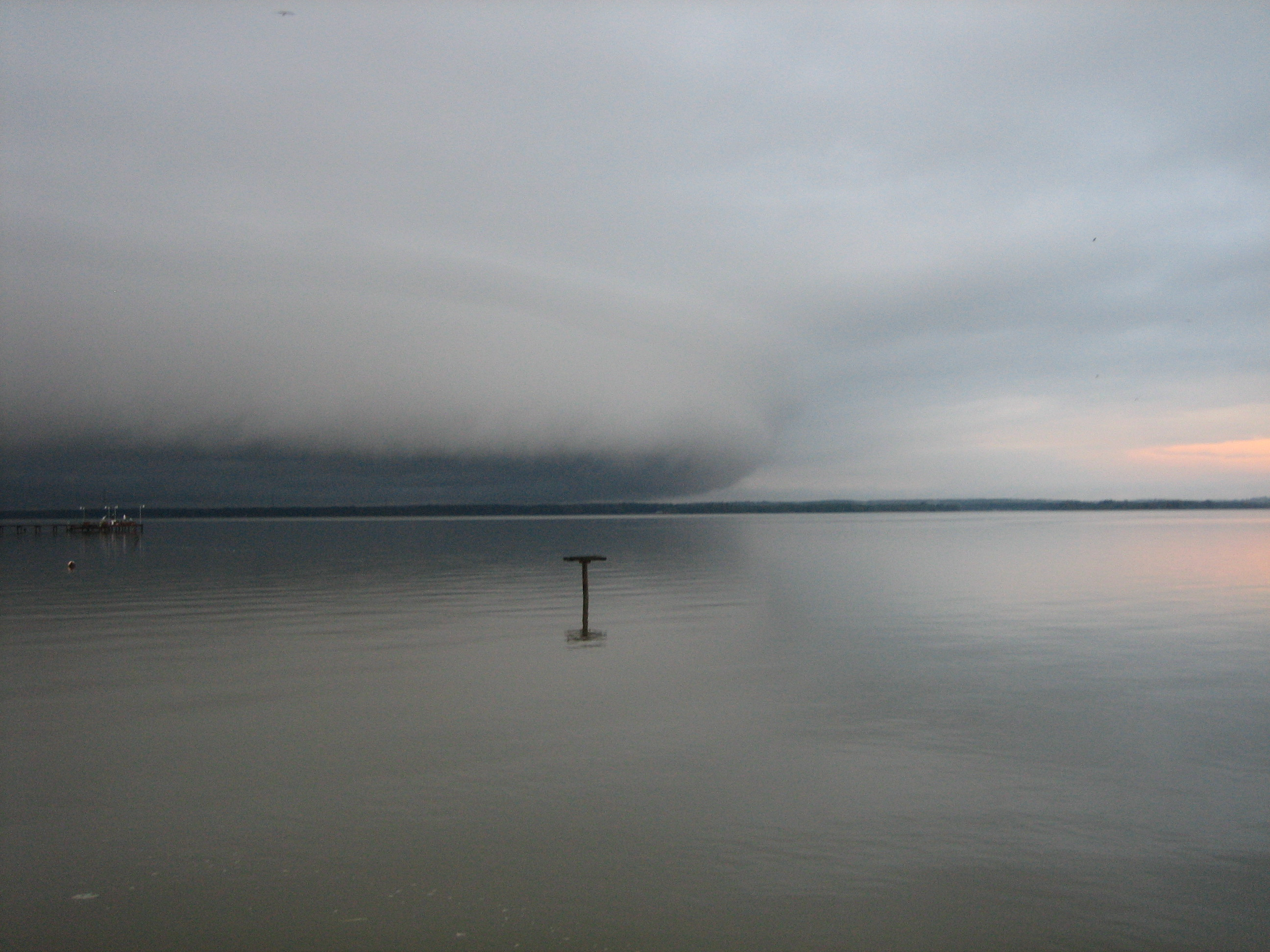 The leading wedge-shaped edge of a cold front moves rapidly along the Rappahannock River.